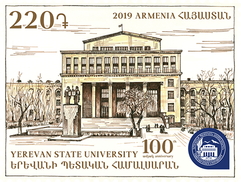 100th anniversary of the foundation of Yerevan State University